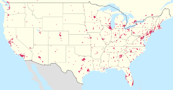 Image from